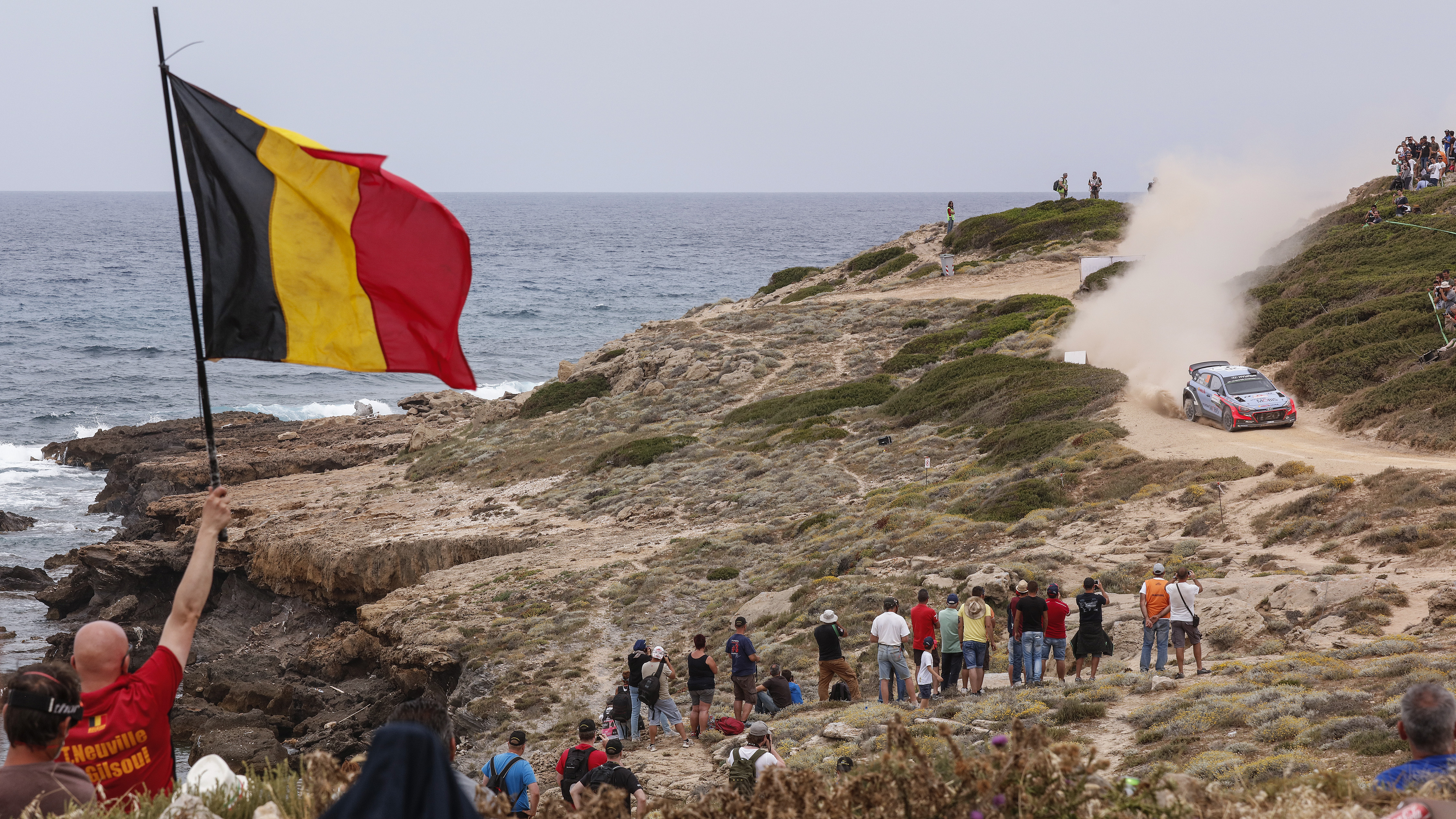 2016 FIA World Rally Championship / Round 06 / Rally d'Italia Sardegna // June 09-12, 2016 //